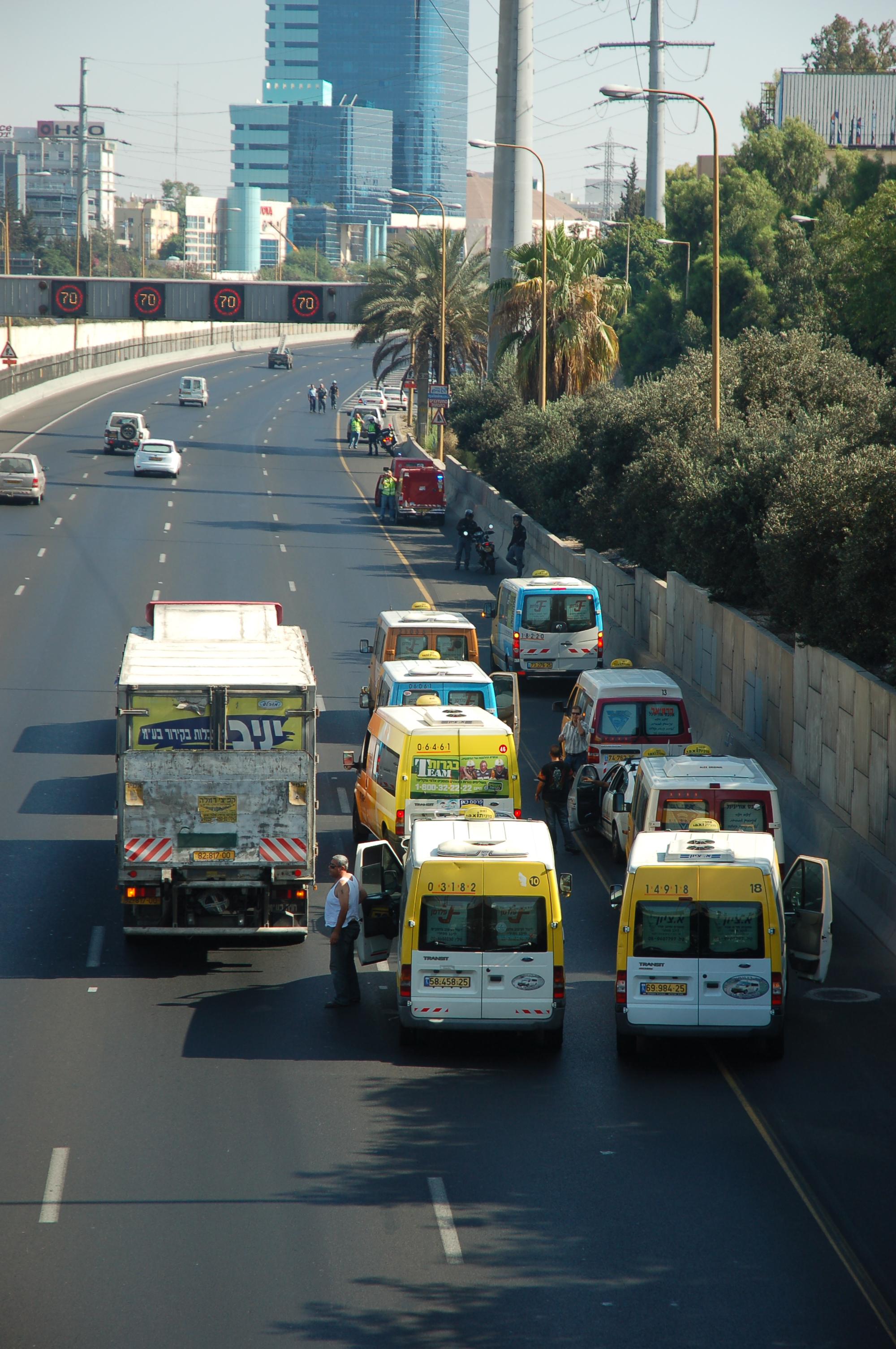 Truck and taxi drivers blocking Highway 20 in Israel (the Ayalon Highway) in protest against rising fuel costs.